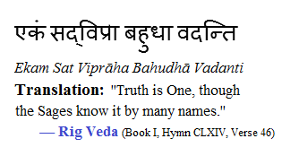 Rig Veda promoting multi-religious society by saying, "Truth is One, though the Sages know it by many names".